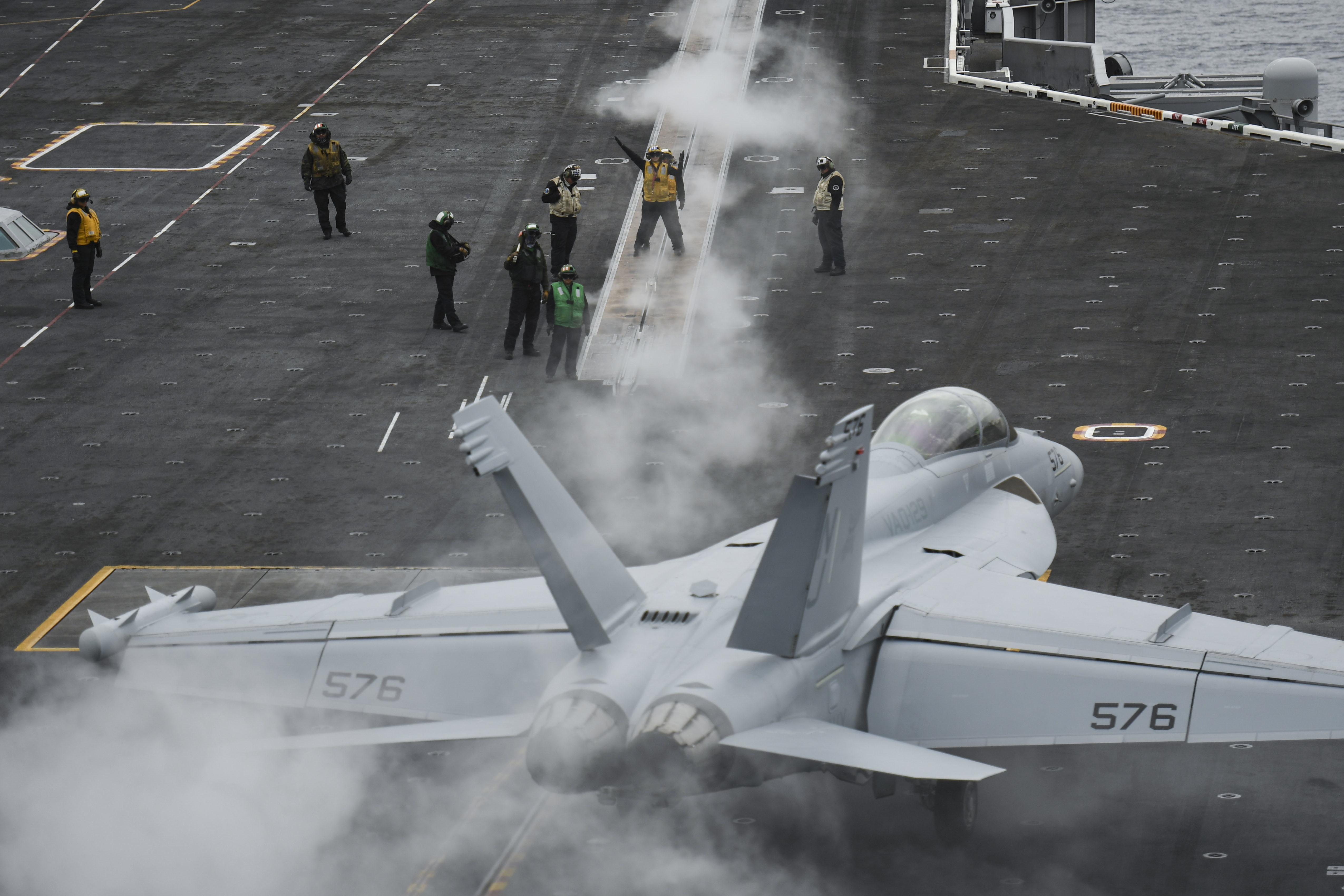 190428-N-GW645-1615 PACIFIC OCEAN (April 28, 2019) An E/A-18G Growler assigned to the “Vikings” of Electronic Attack Squadron (VAQ) 118 taxis onto a catapult on the flight deck of the aircraft carrier USS Theodore Roosevelt (CVN 71). Theodore Roosevelt is homeported in San Diego. (U.S. Navy photo by Mass Communication Specialist Seaman Olympia O. McCoy/Released)